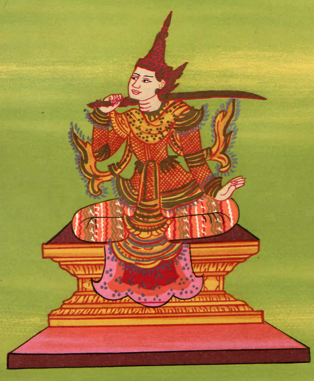 Drawing of Tabinshwehti nat in